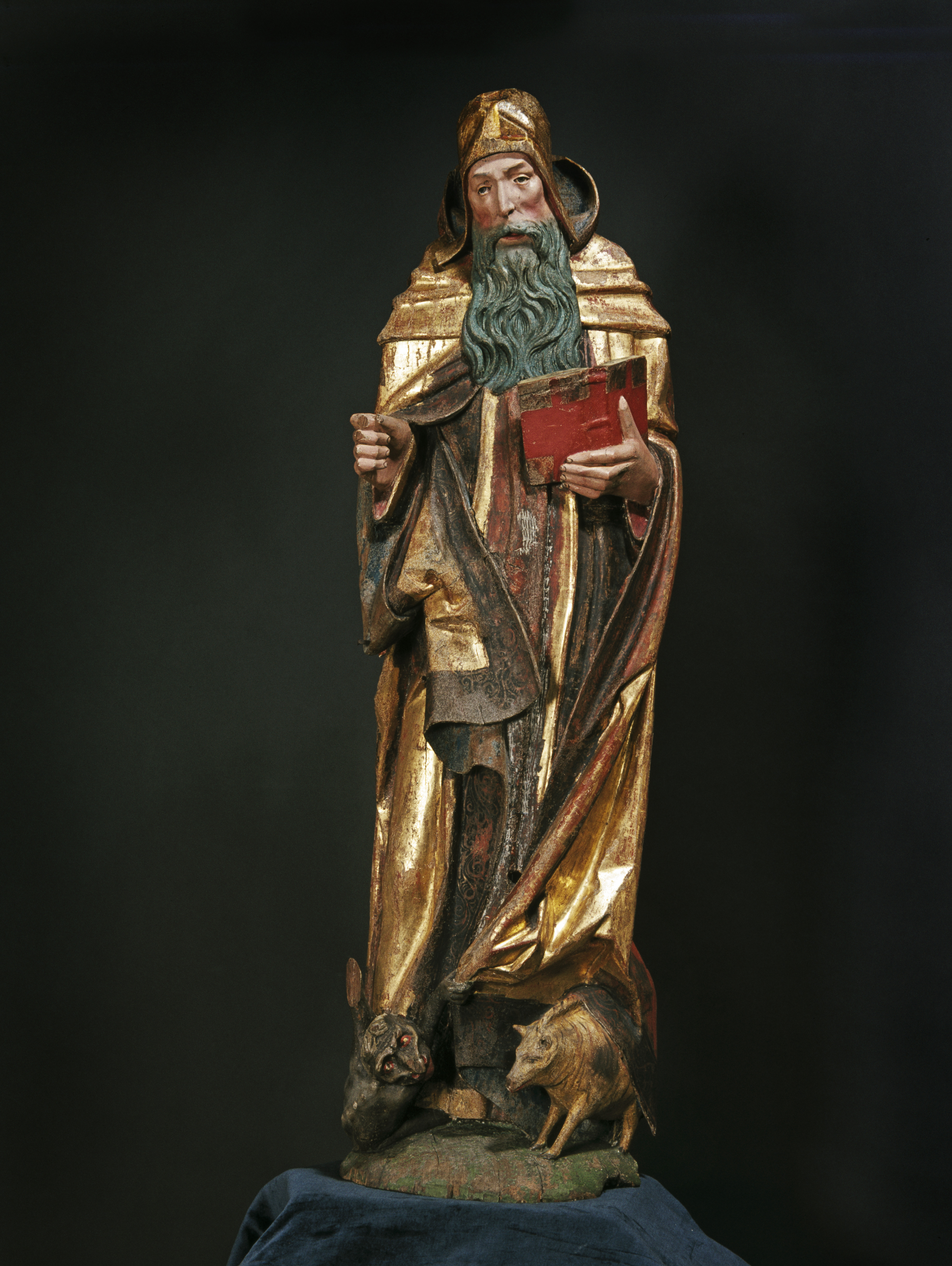 Old altar piece from Kvæfjord church, Norway. It is now stored in Museum of Cultural History, Oslo. Detail, showing Saint Anthony the Great.